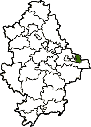 Snezhnoye-Raion map